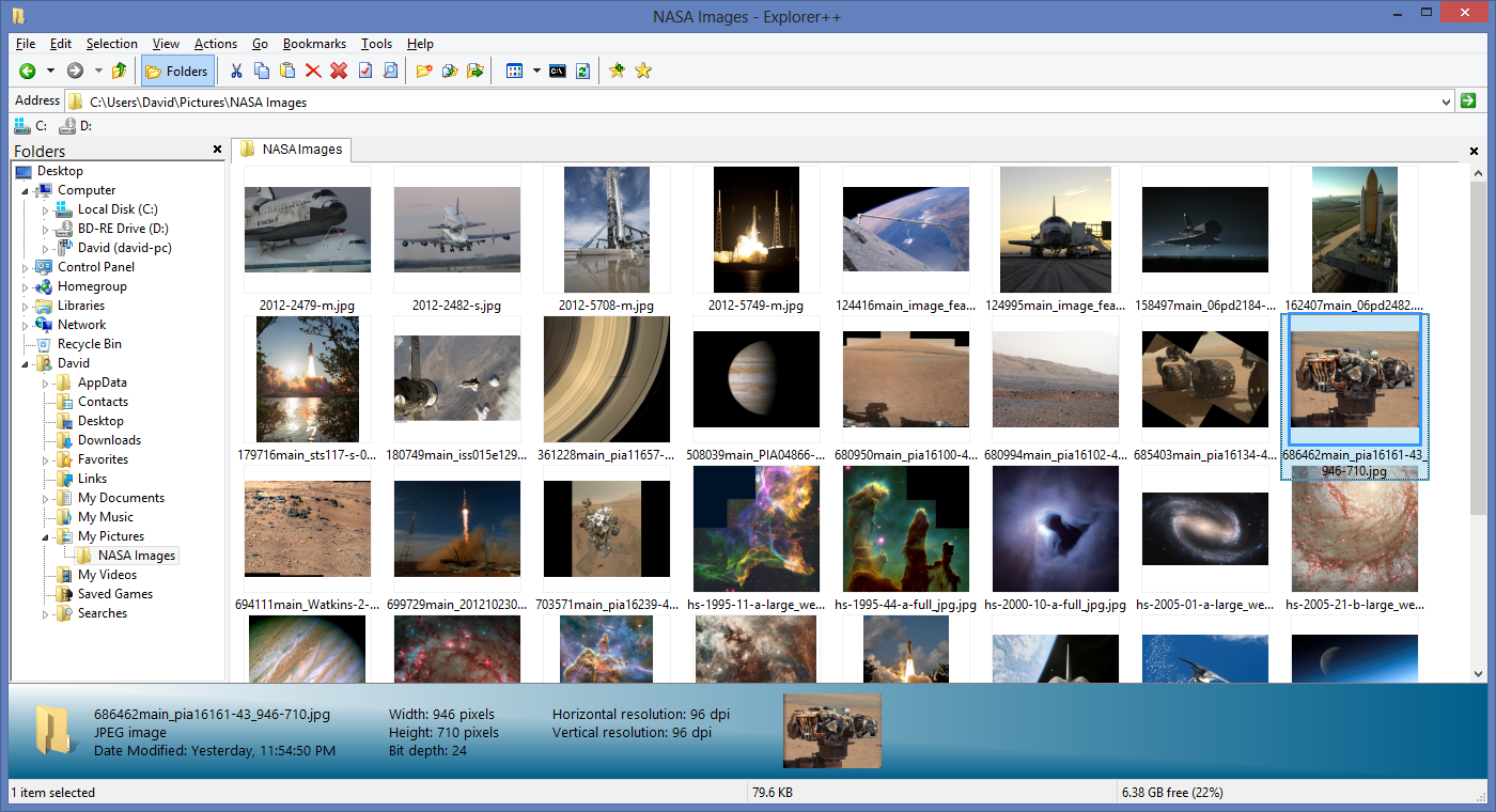 Explorer++ screenshot.